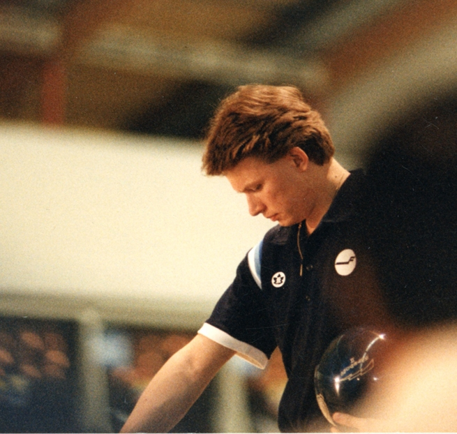 Bowling World championships 1987 , Helsinki ,Finland